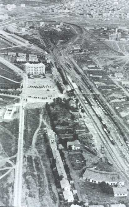 Ankara station in the early 1930s, before the Art Deco station building was built.